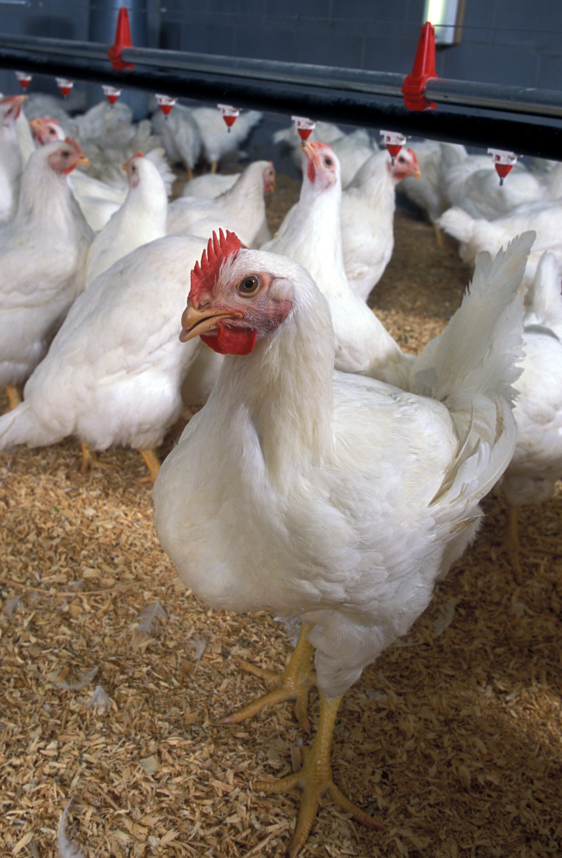 USDA is updating the definitions for poultry classes, such as broiler or roaster, which are based on the sex and age of the bird when harvested.